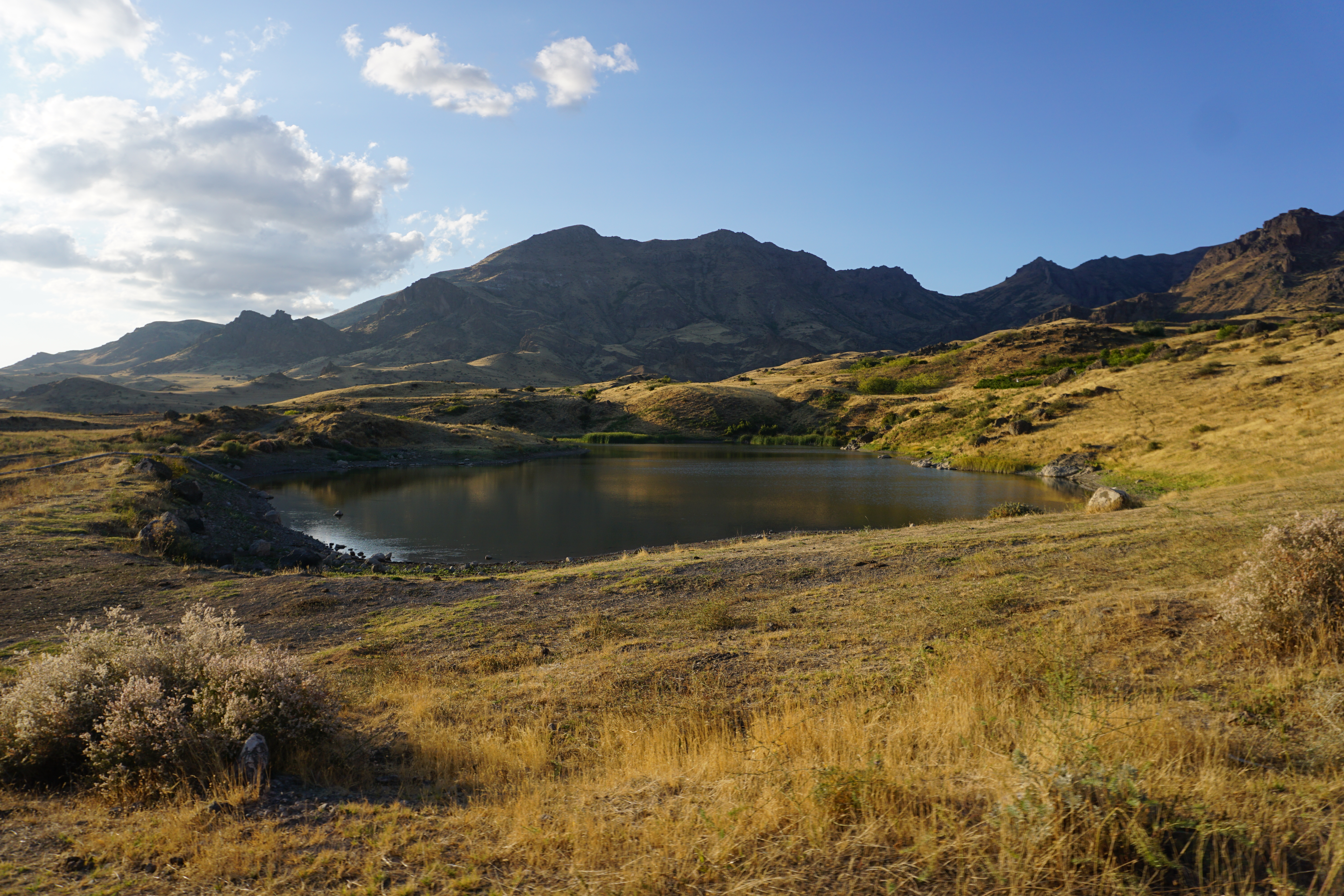 Yeghegnalich, Rind